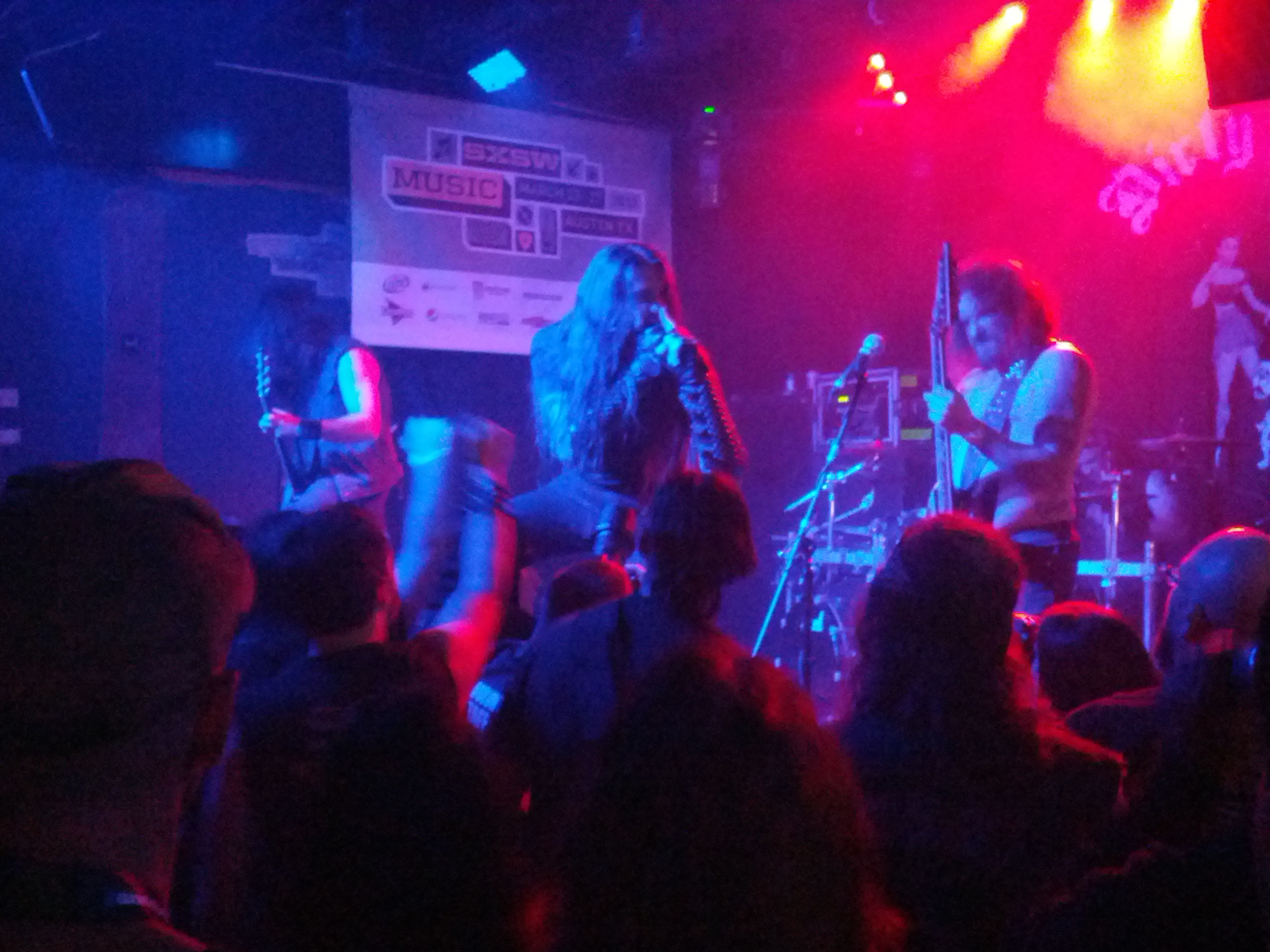 Goatwhore at SXSW 2013